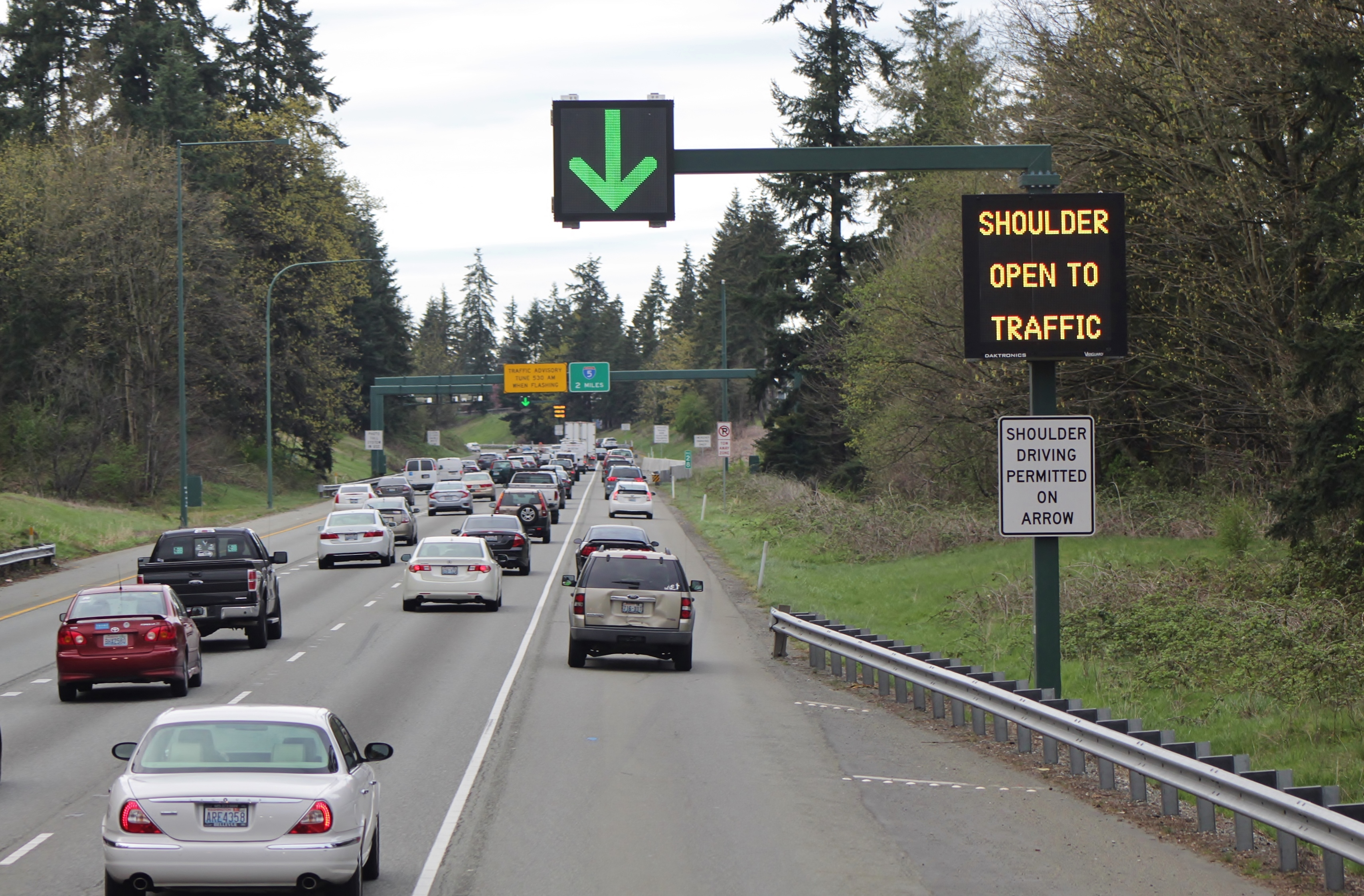 A shoulder lane that is open to traffic during peak periods on Interstate 405 northbound in Bothell, Washington.